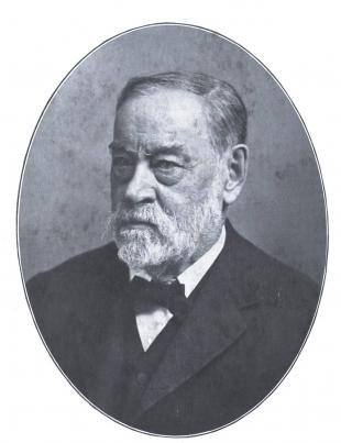 William Ford Robinson Stanley (1829–1909), british inventor.